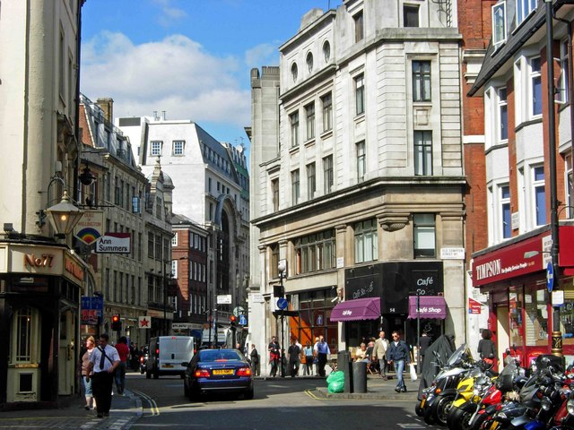 Wardour Street, Soho. Soho is a compact district of narrow streets and passages with an astonishing variety of bars, restaurants and businesses of all kinds. Although its seedy reputation is largely outdated, it is perhaps not a place for the easily shocked. Wardour Street runs through the heart of the area.